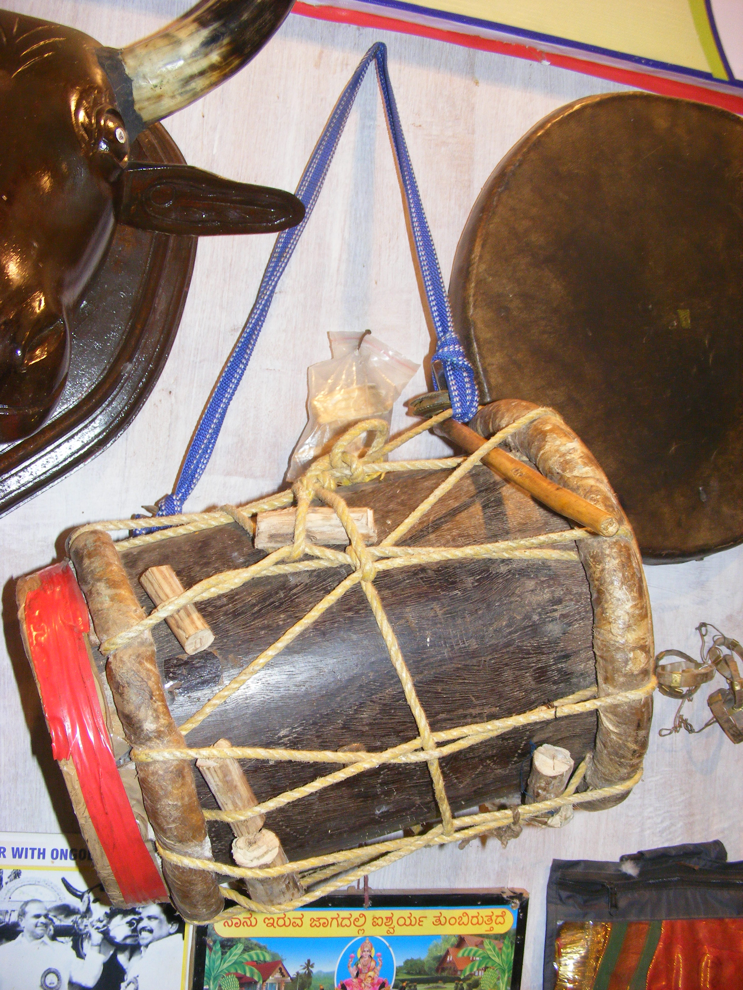 Dholak used by farmers in Andhra Pradesh India